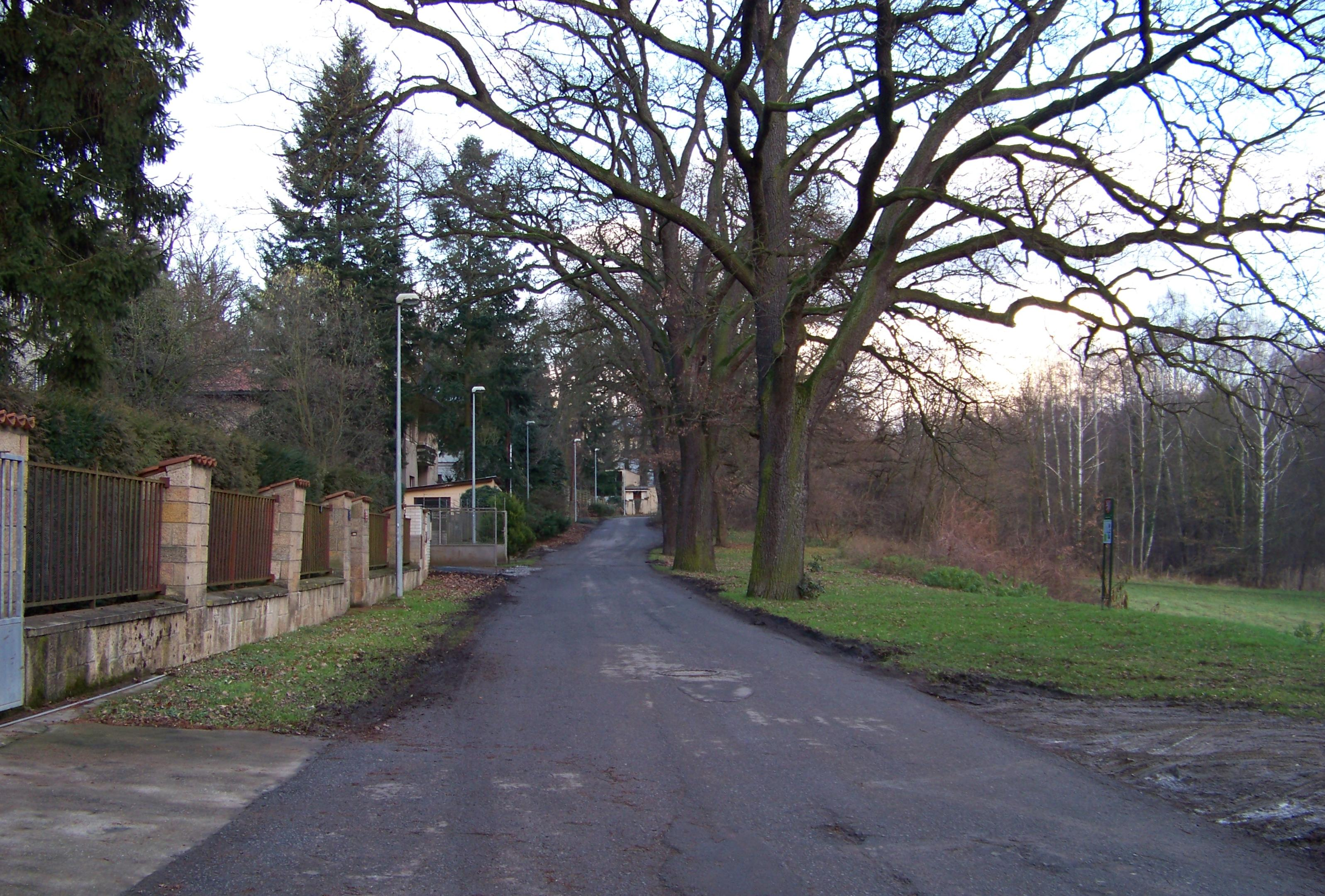 Prague-Hodkovičky and Kamýk, the Czech Republic. Zátiší, V lučinách street, a memorable avenue.